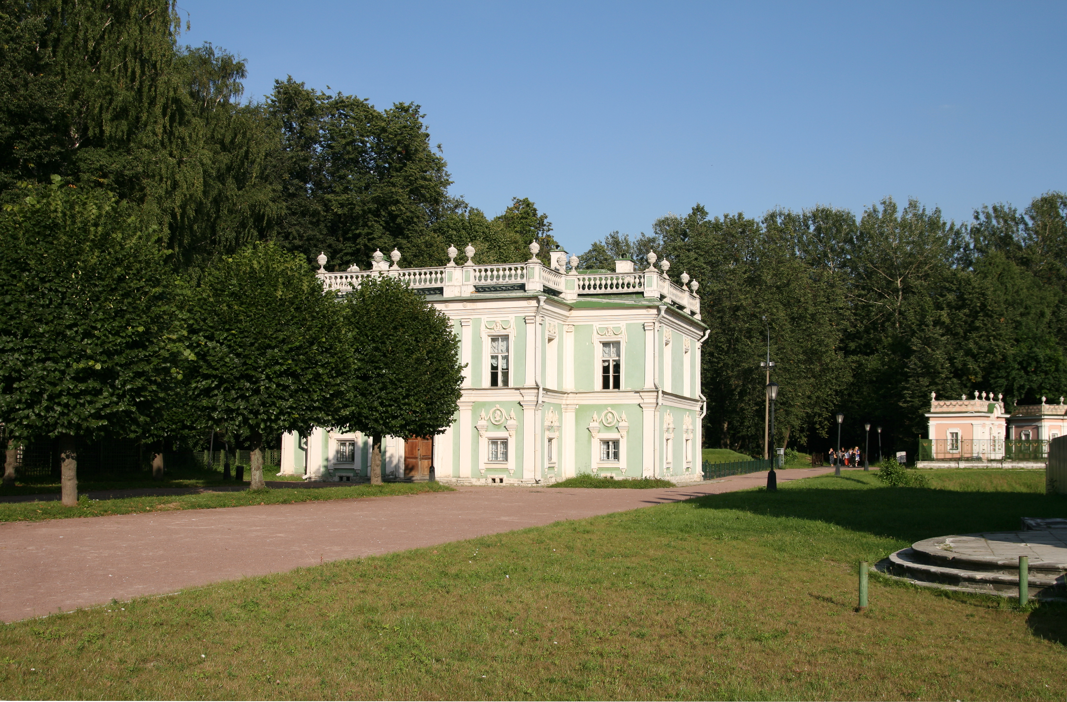 The Italian House in Kuskovo Estate, 1755, Moscow